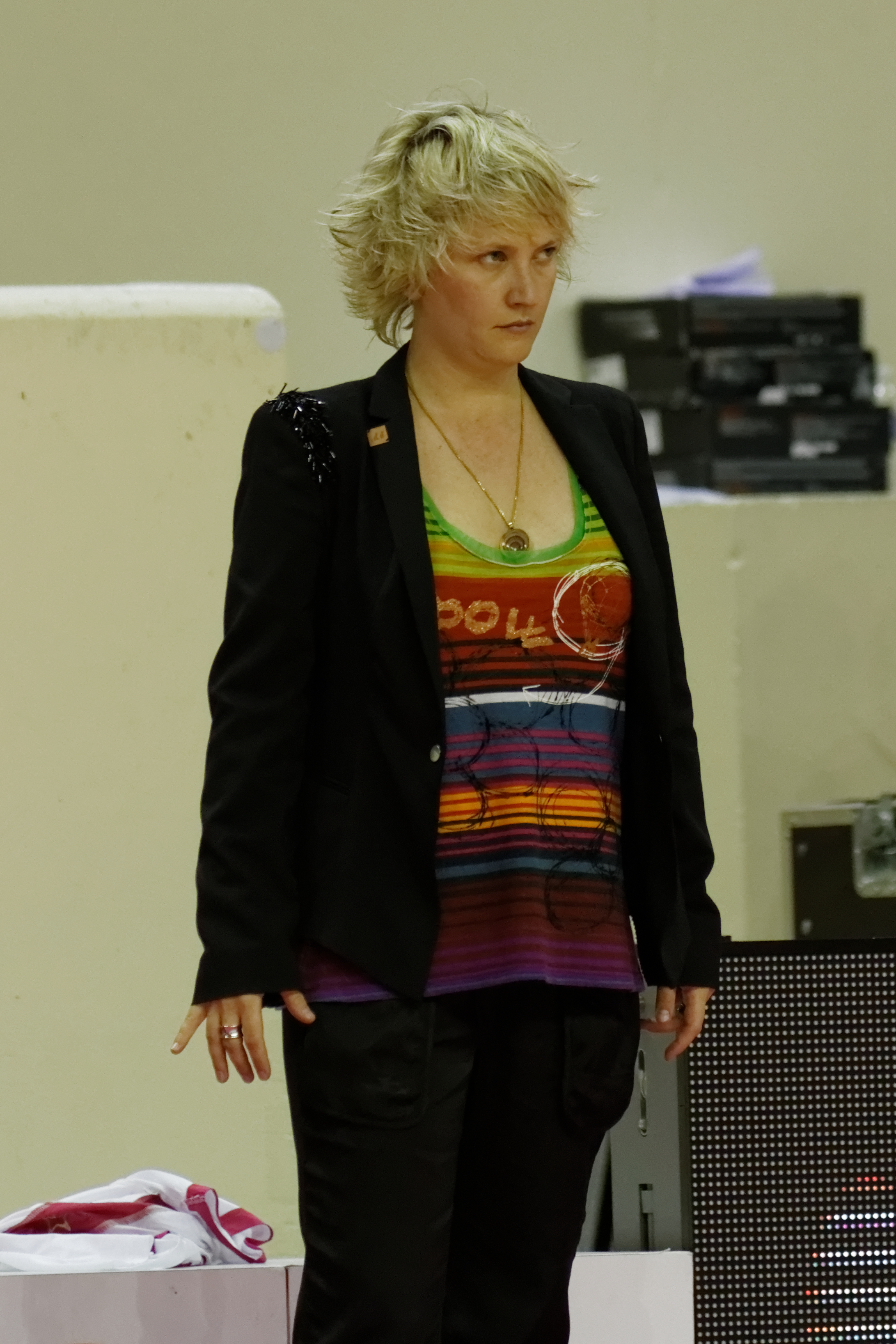 Open LFB, Arras-Lyon, October 6th, 2013.